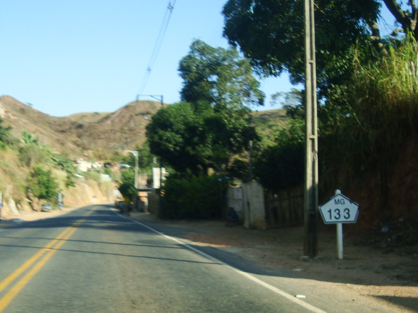 Road MG-133 in Rio Pomba, Minas Gerais, Brazil